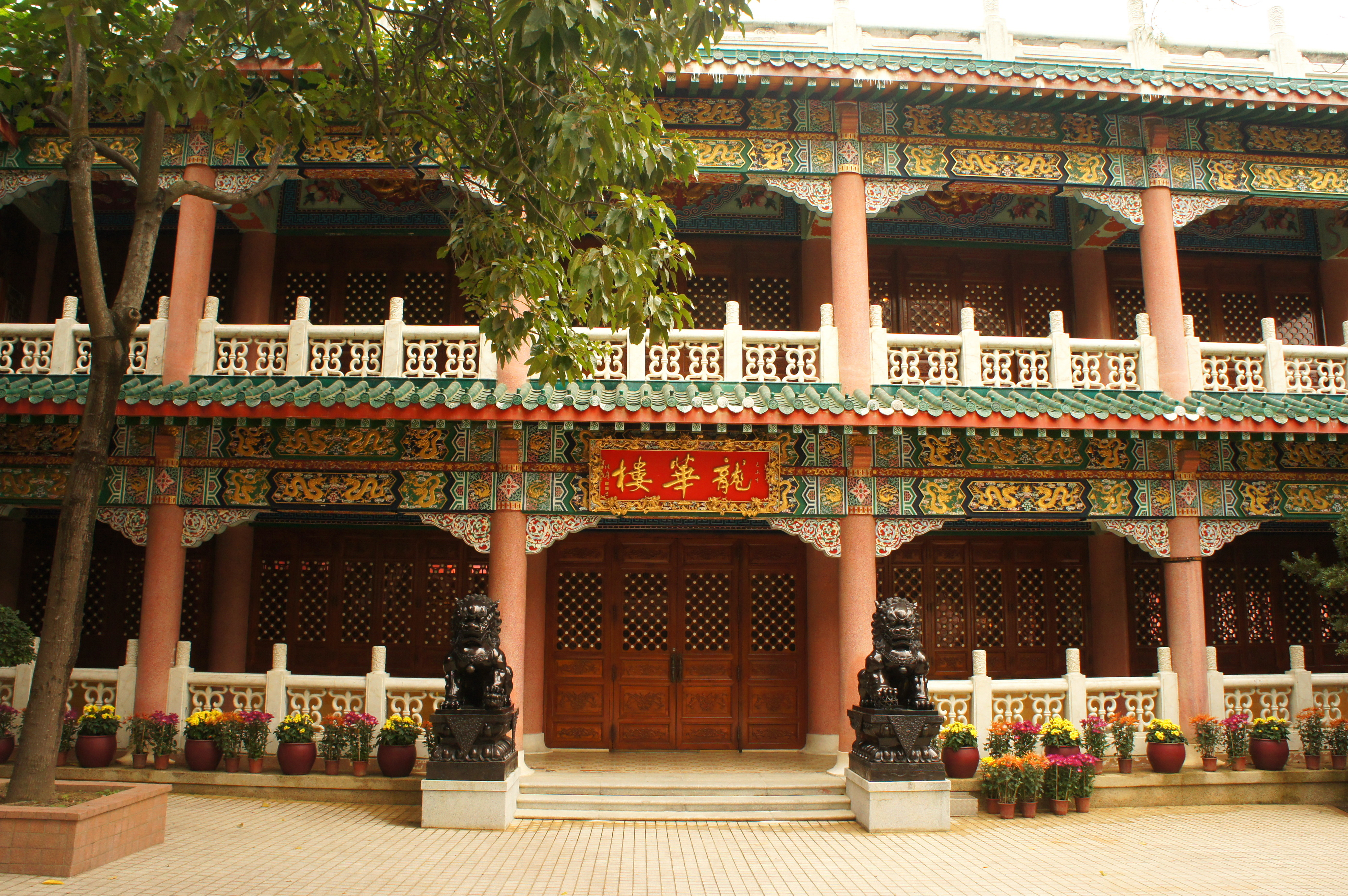 Lung Wah Building in Yuen Yuen Institute, Tsuen Wan, Hong Kong.